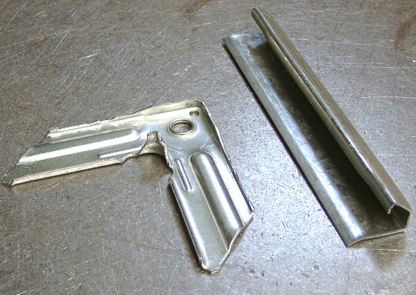 air-duct corner piece for assembly